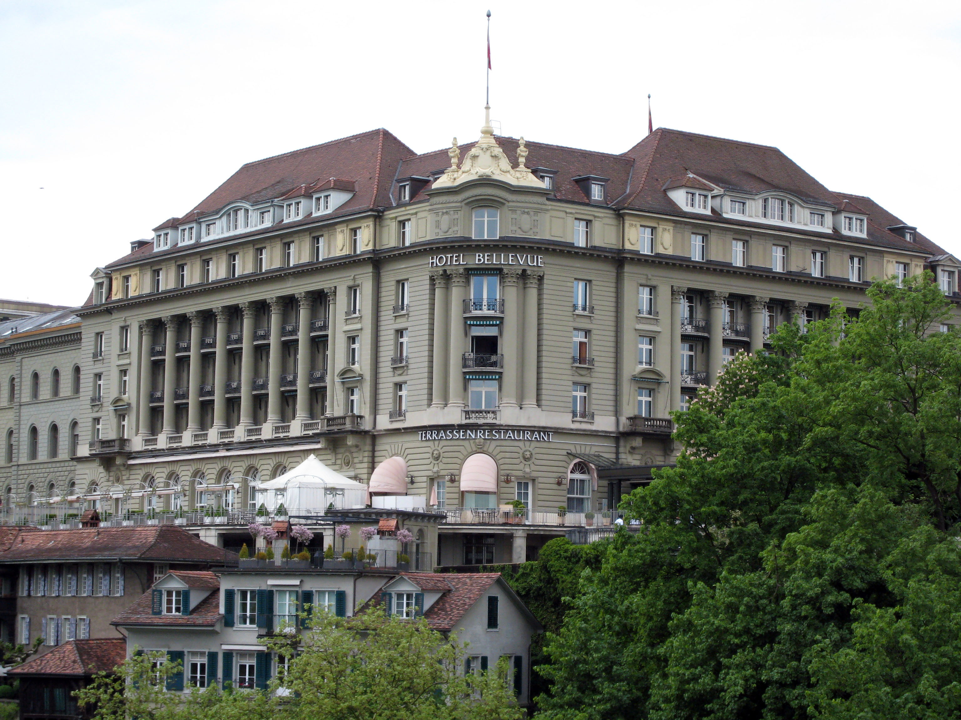 Bellevue Palace hotel, Berne, Switzerland.